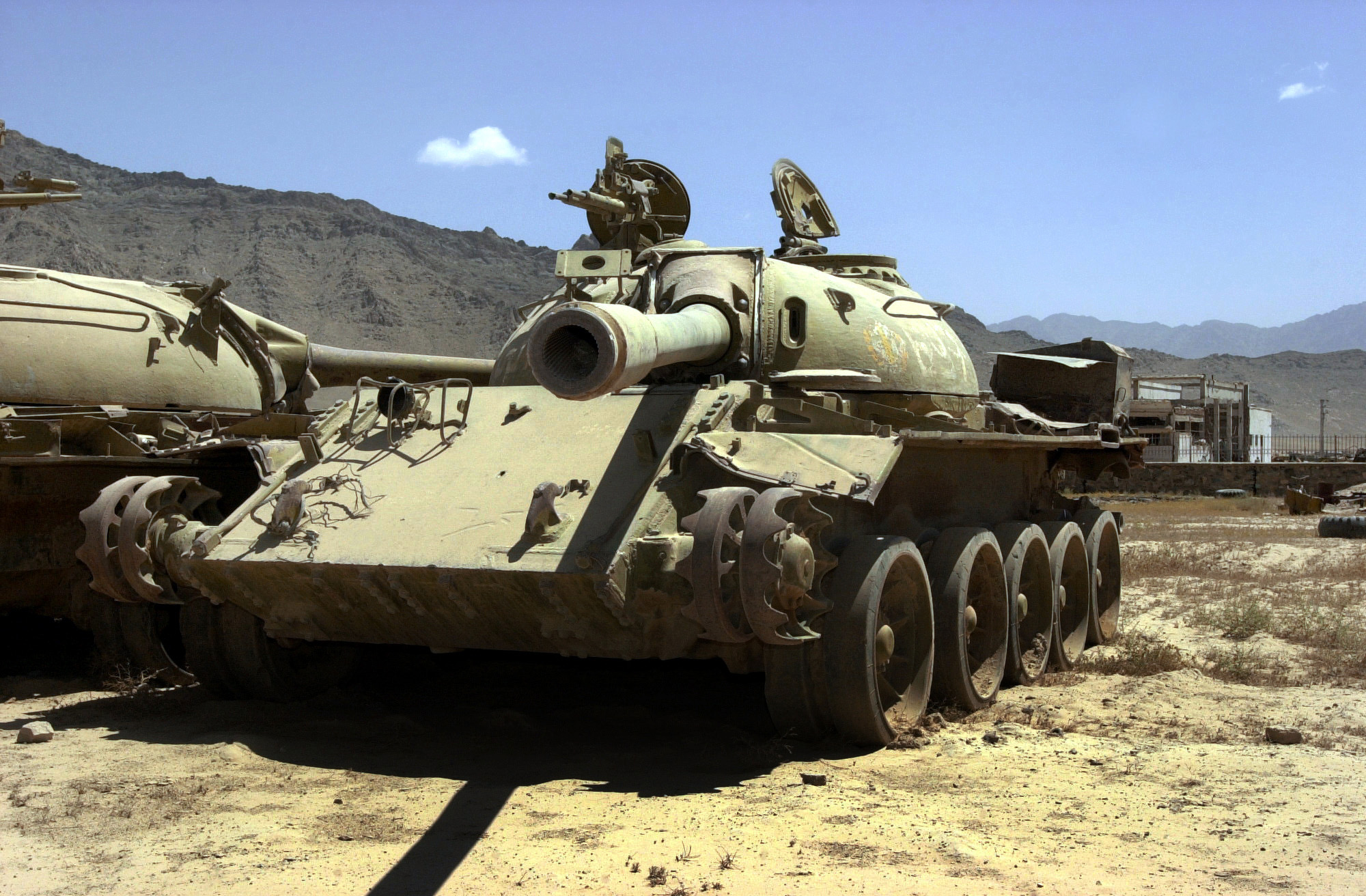 Soviet T-54A and T-55 or T-55A Main Battle Tanks (MBT) sit rusting in a field near Bagram Air Base, Afghanistan, during Operation ENDURING FREEDOM. After over 20 years of war and civil unrest, the Afghan landscape is littered with old military hardware and unexploded ordnance.